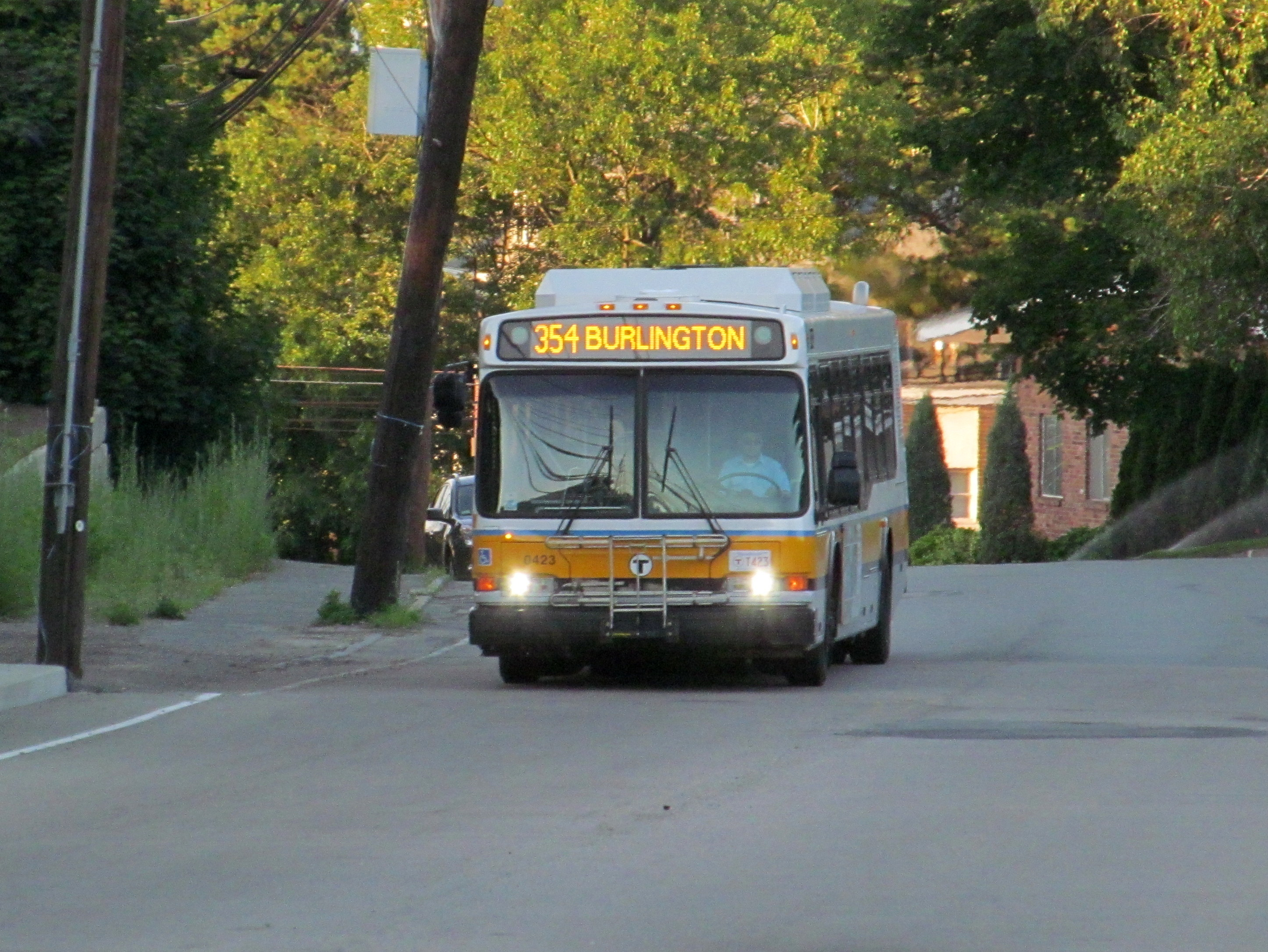 An outbound #354 bus on turns from Pine Street to Salem Street in Woburn, Massachusetts